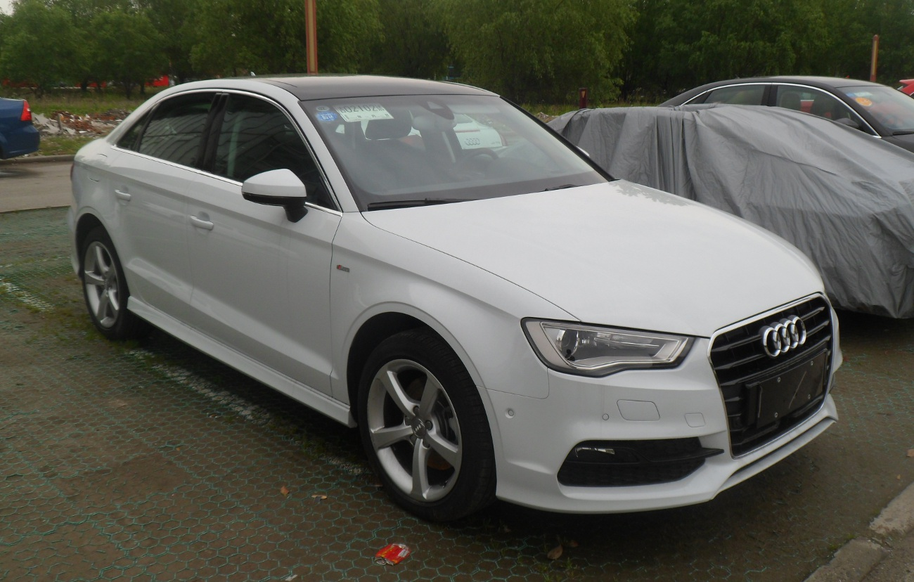 Audi A3 8V sedan photographed in Anting, Shanghai municipality, China.